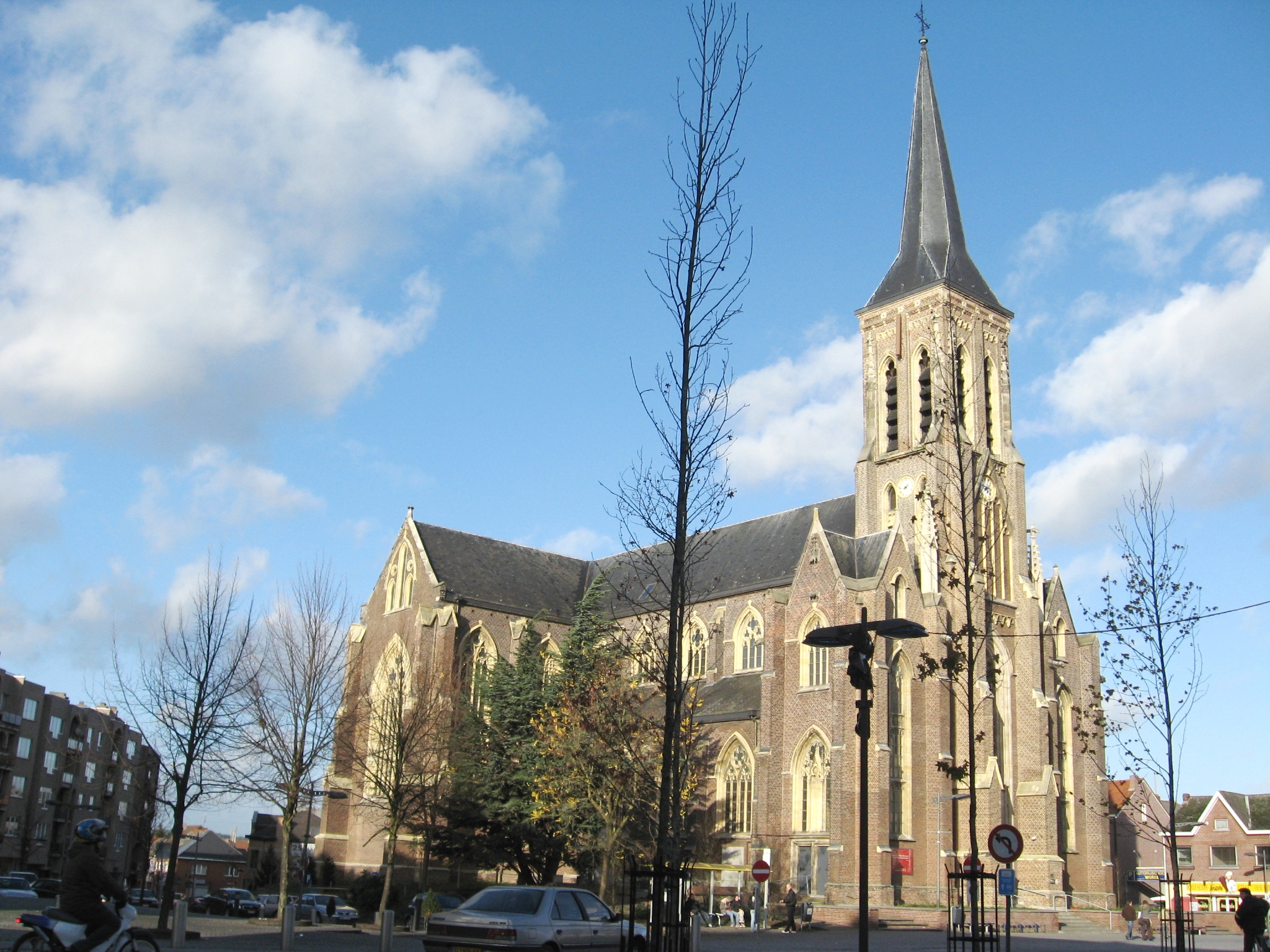 Church of Saint Ursula in Lanaken, Limburg, Belgium